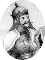 King Adolf of Nassau-Weilburg